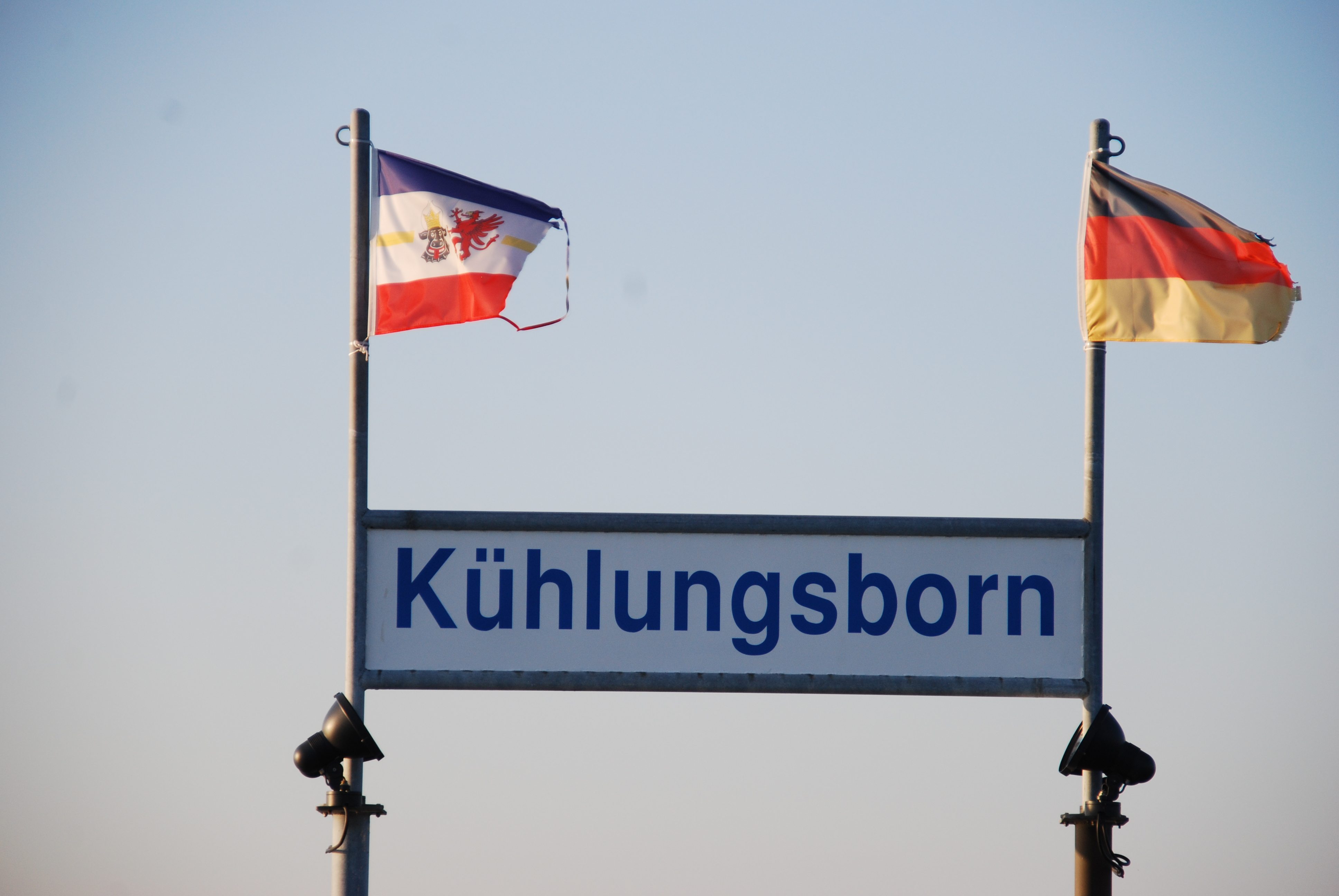 Kühlungsborn.